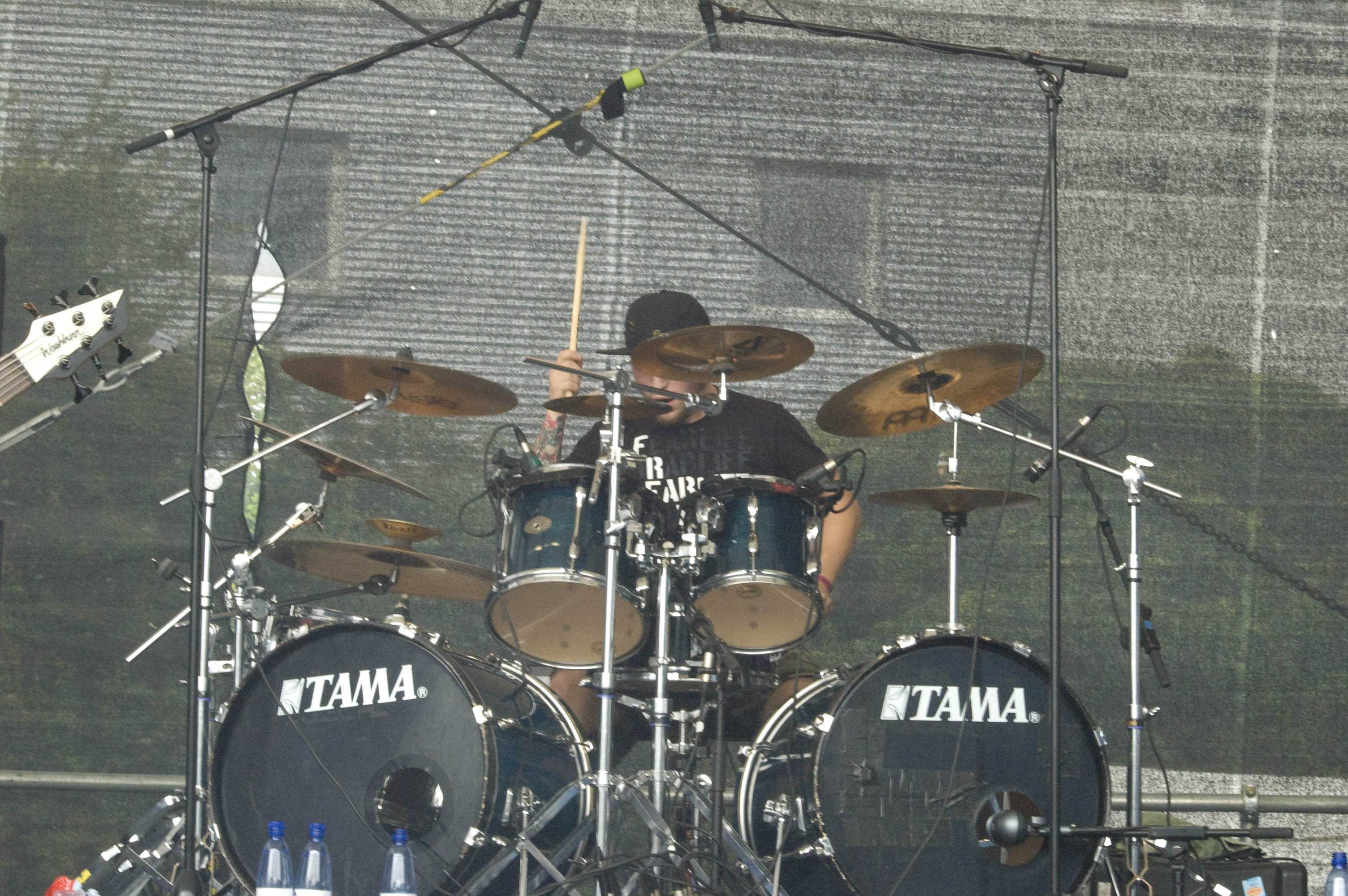 Matt Kuykendall from All Shall Perish live at a concert in 2008.